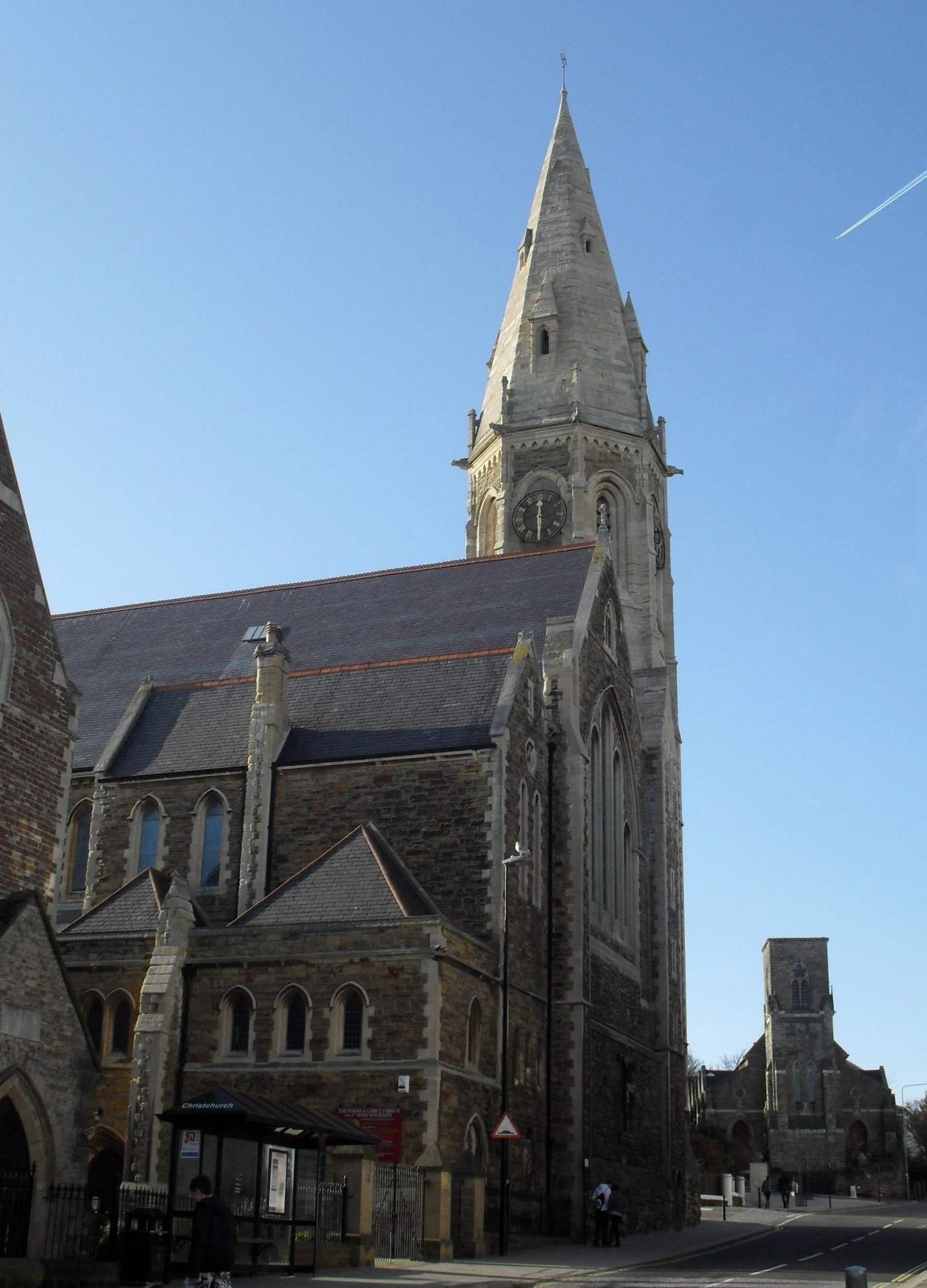 A view up London Road in St Leonards-on-Sea, Hastings, East Sussex, England, showing (nearest camera) the former Christ Church (1860), the present Christ Church (1875) behind it, and in the distance the former Congregational (later United Reformed) church of 1864.